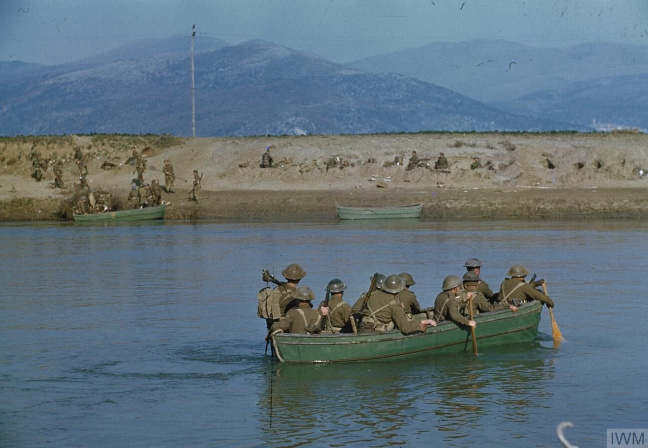 The Crossing of the Garigliano River by the Fifth Army, Lauro, Italy, 19 January 1944 Royal Engineers in assault boats embark for the opposite bank to repair the last two sections of the pontoon bridge knocked out by enemy fire.